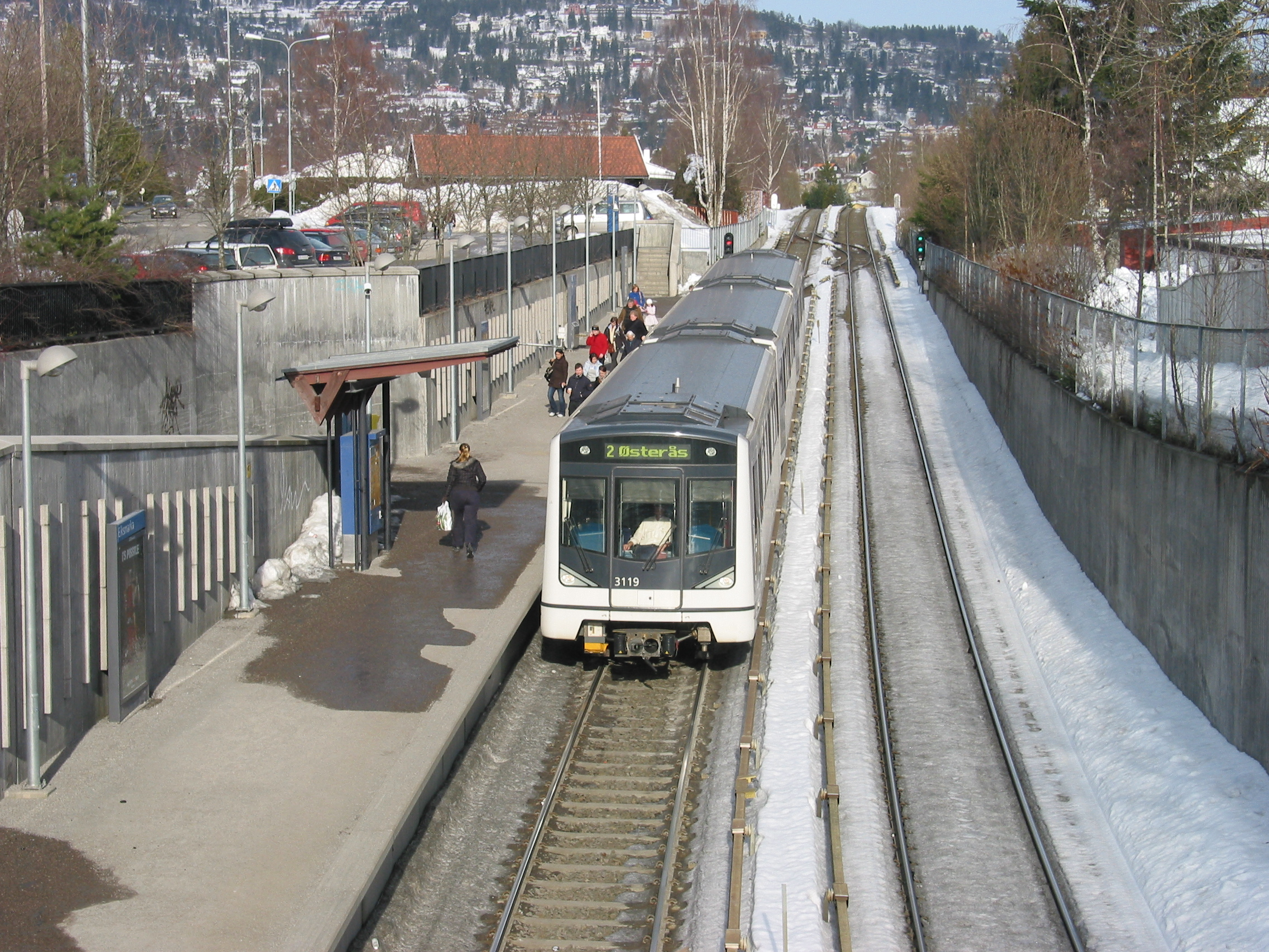 View of Eiksmarka station, looking east.